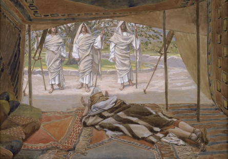 Abraham and the Three Angels, c. 1896-1902, by James Jacques Joseph Tissot (French, 1836-1902), gouache on board, 7 3/4 x 11 5/16 in. (19.8 x 28.8 cm), at the Jewish Museum, New York